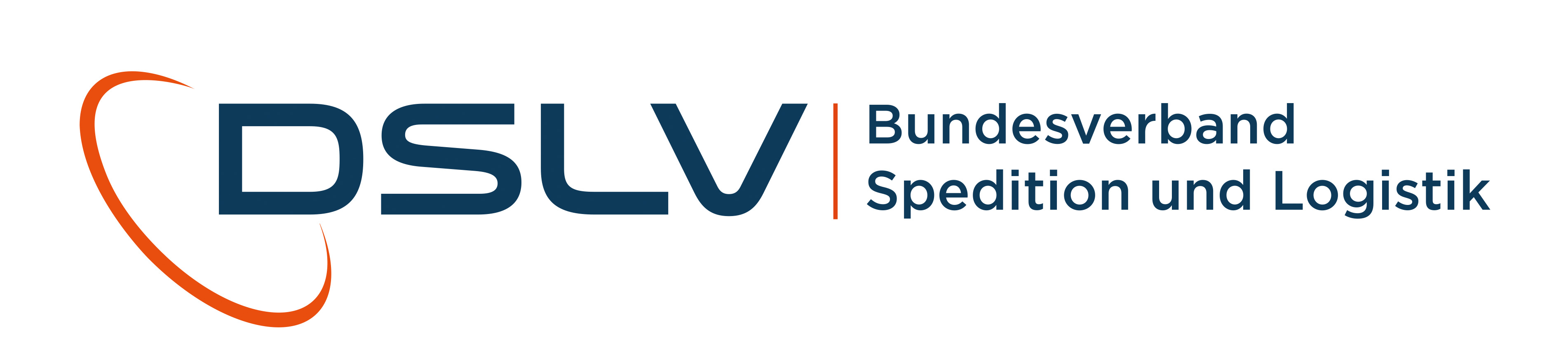 The Logo of the Federal Association for Freight Forwarding and Logistics.